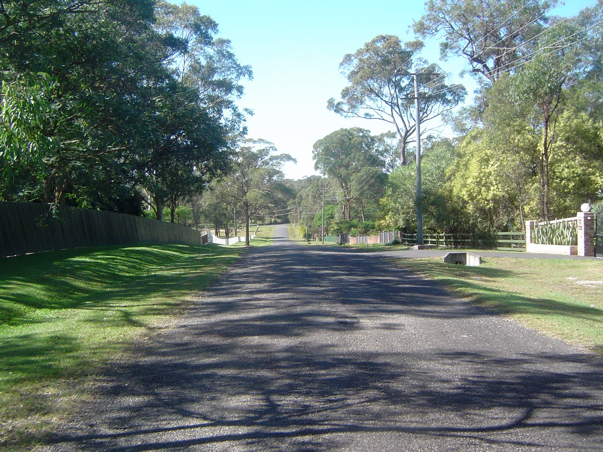 Photo of Dunne Road in Burbank, Queensland looking eastwards.